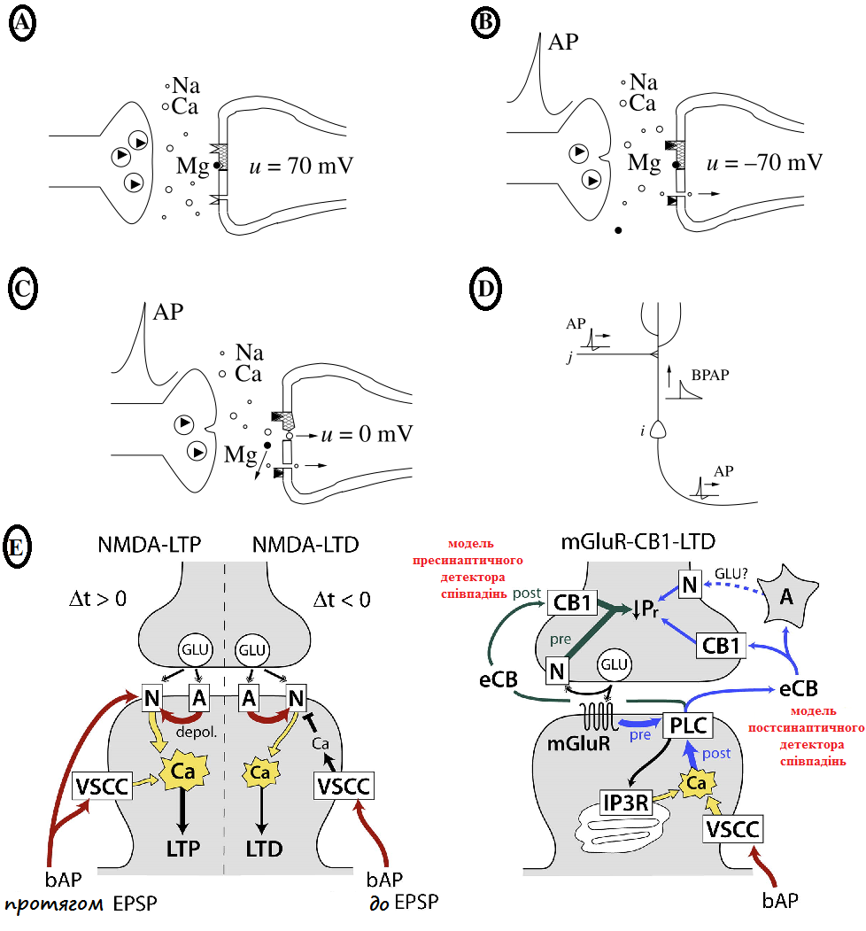 NMDA-receptor plasticity